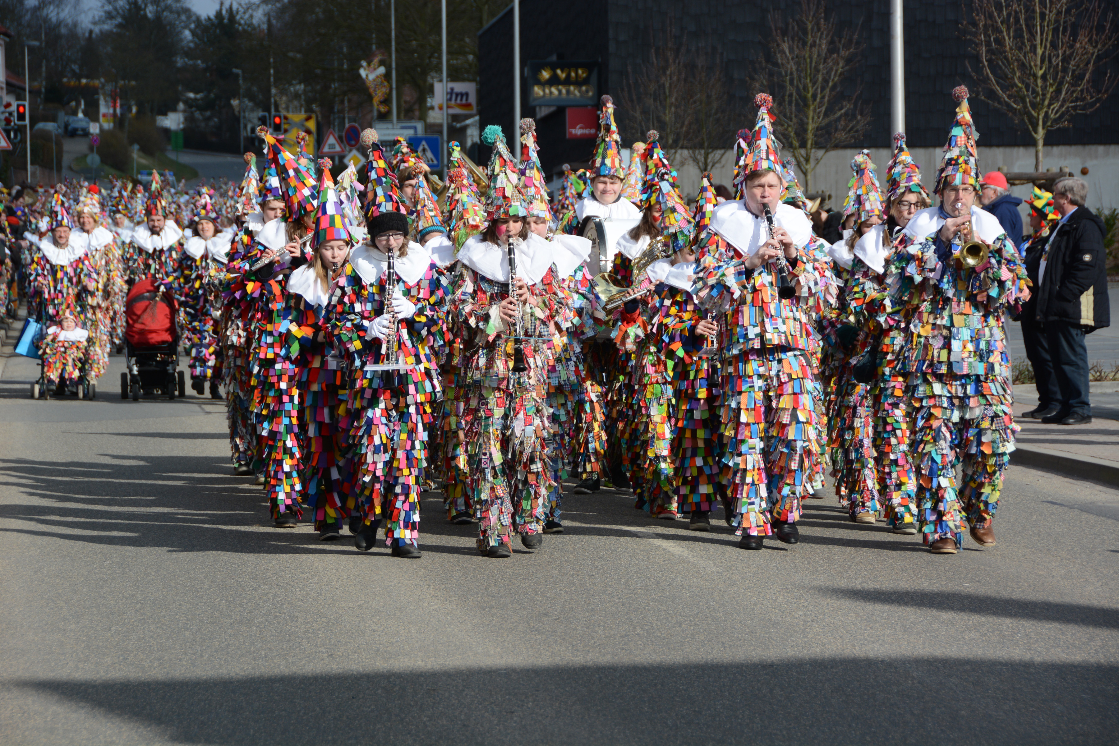 Carnival band in Huddelbaetz costume in Buchen (Odenwald), Germany